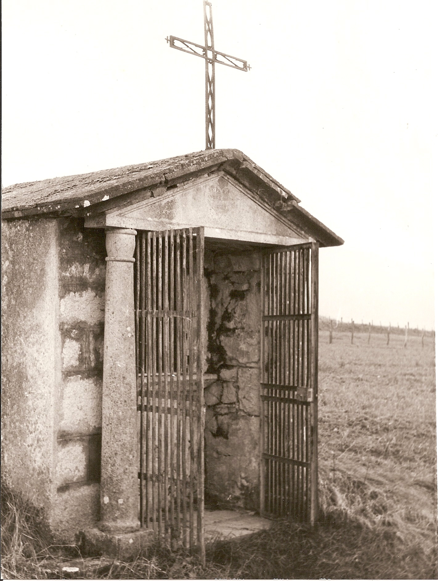 oratory